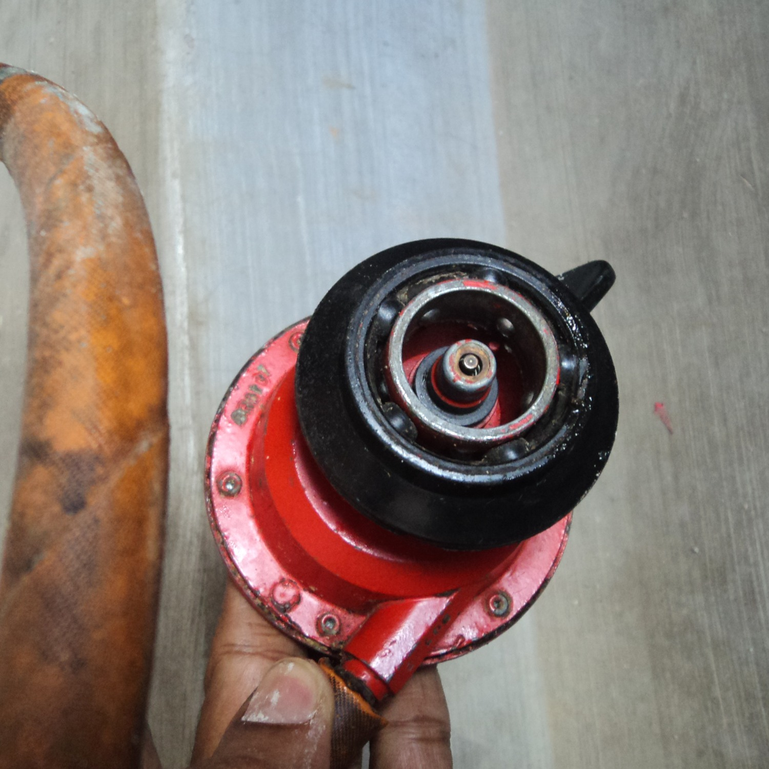 the regulator which is used to mix air with LPG and supplies the gas to the stove protectivelly, Tamil Nadu, India